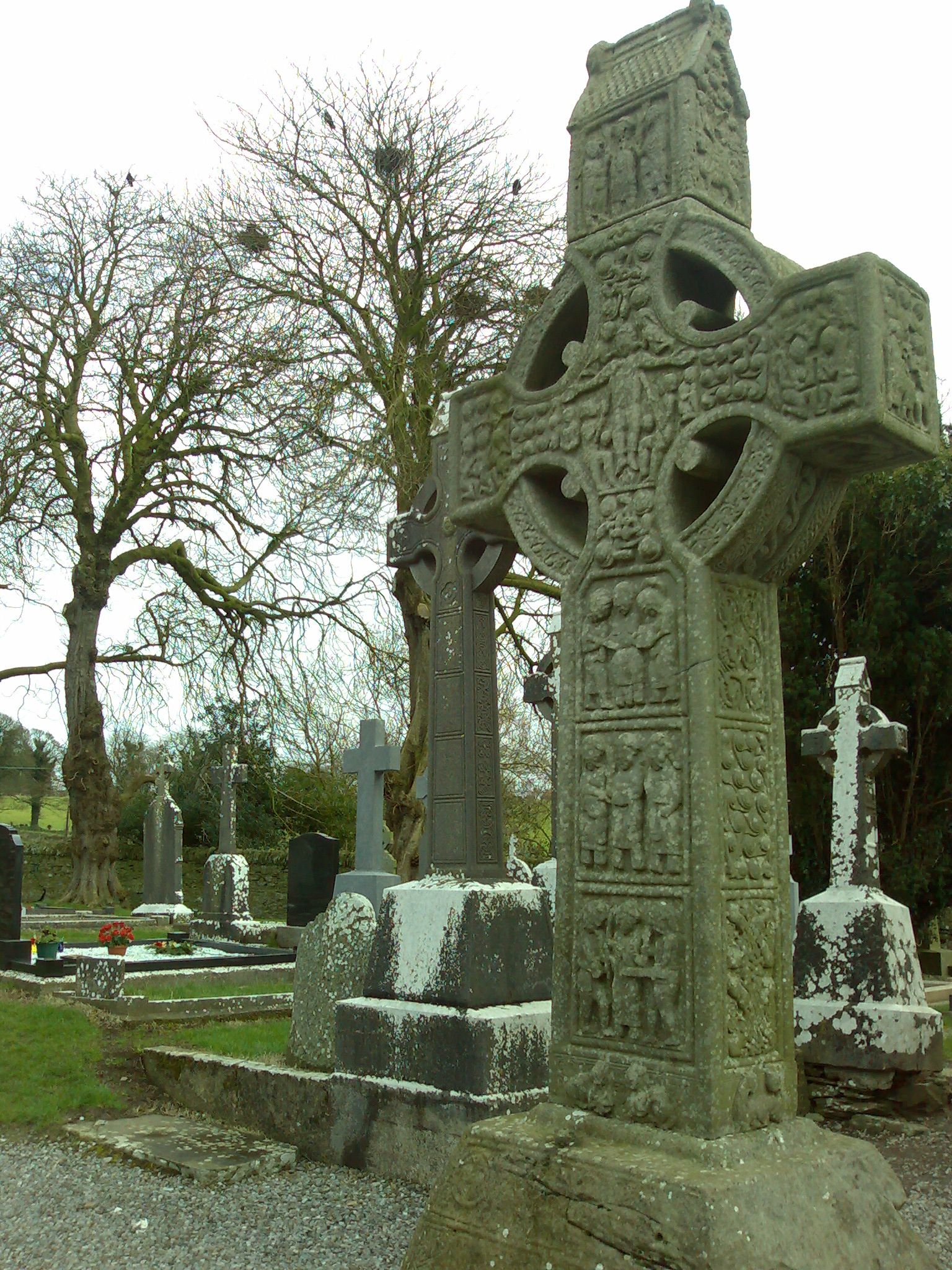 Photo of Muiredach's High Cross, located at Monasterboice, County Louth, in the Republic of Ireland.